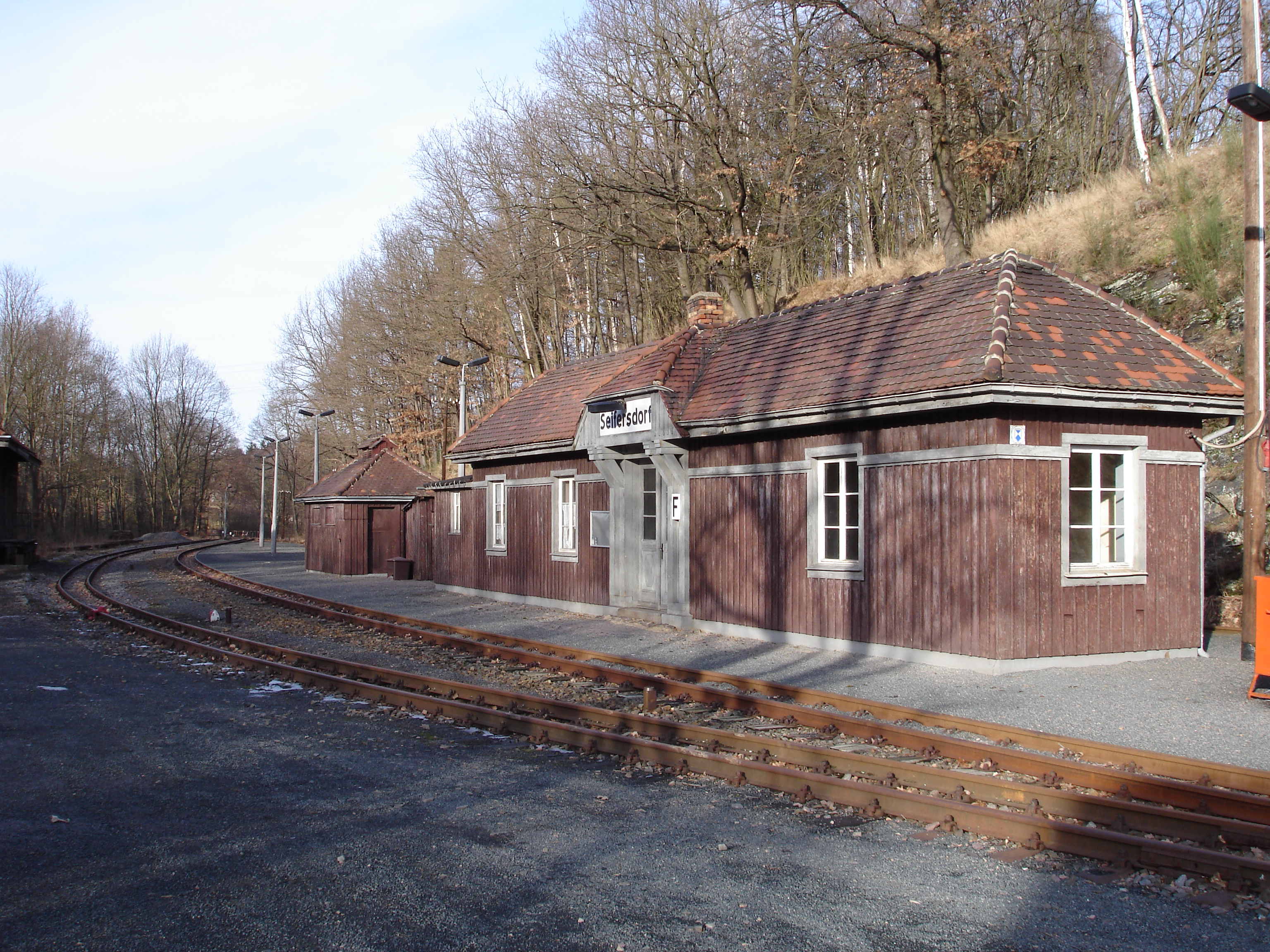 station Seifersdorf, Weißeritztalbahn, Saxony, Germany